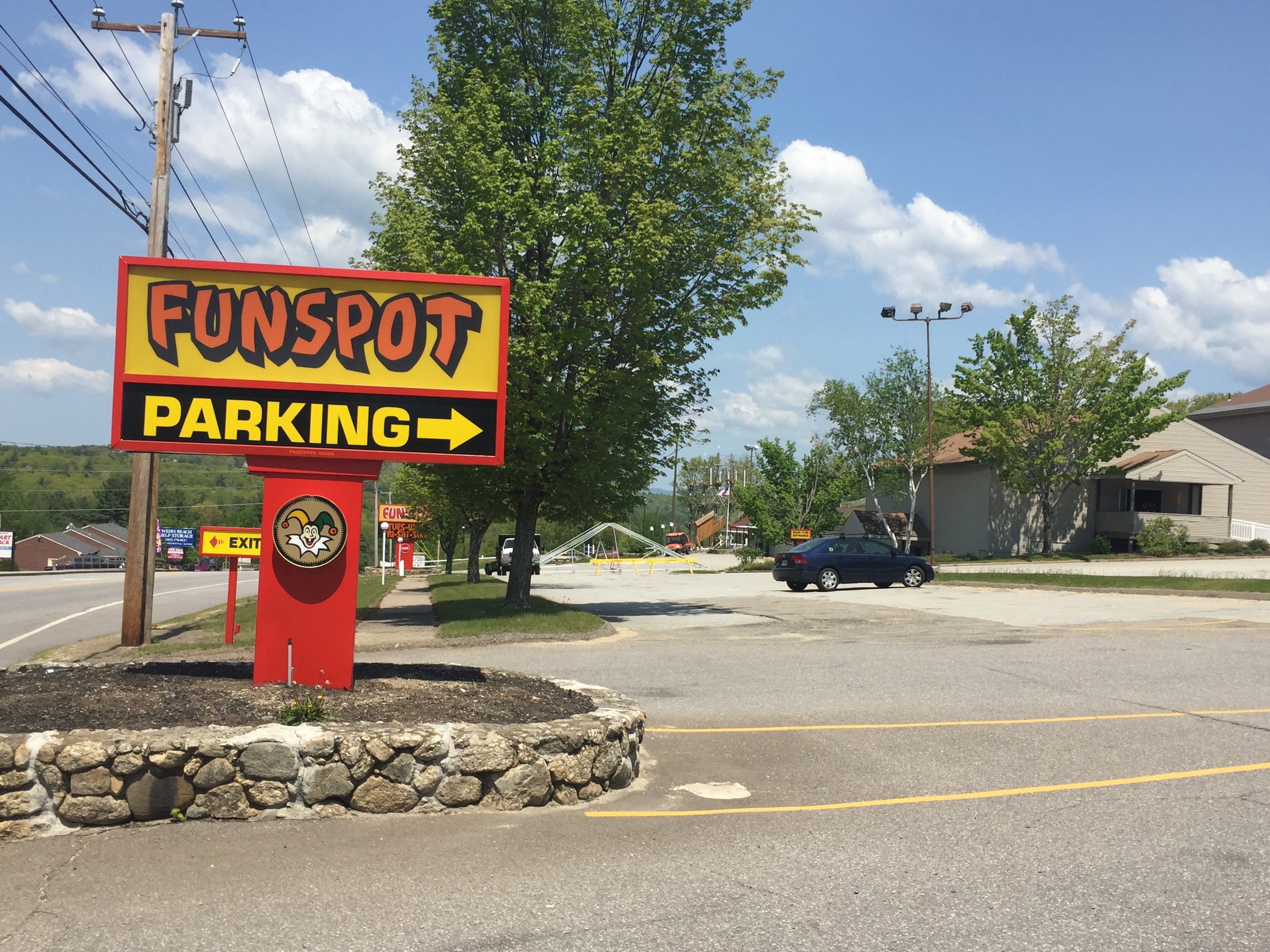 Entrance to Funspot Family Fun Center, Laconia, New Hampshire, May 2016.